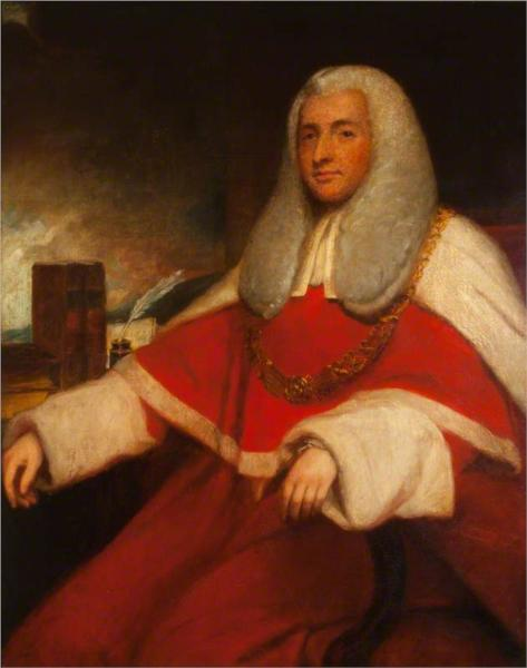 Portrait of Sir Archibald Macdonald, 1st Baronet (1747–1826), British lawyer, judge and politician.